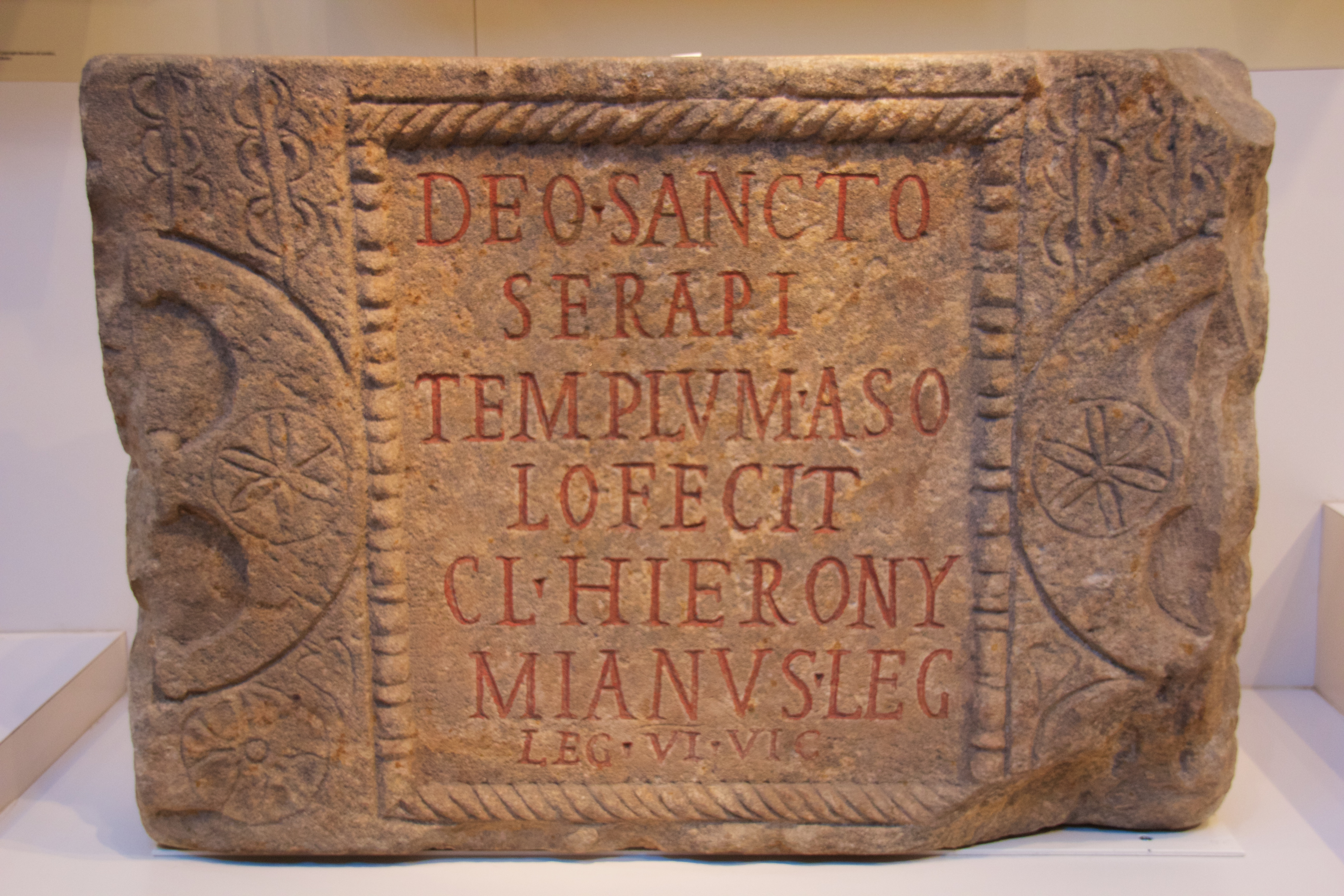 "Serapis. Claudius Hieronymianus, the legate or highest ranking officer of the Sixth Legion, paid for the construction of a temple to Serapis. This god was originally from Egypt and was much favoured by the emperor Septimius Severus. YORYM: 1998.27. Toft Green, York. At the Yorkshire Museum, York.